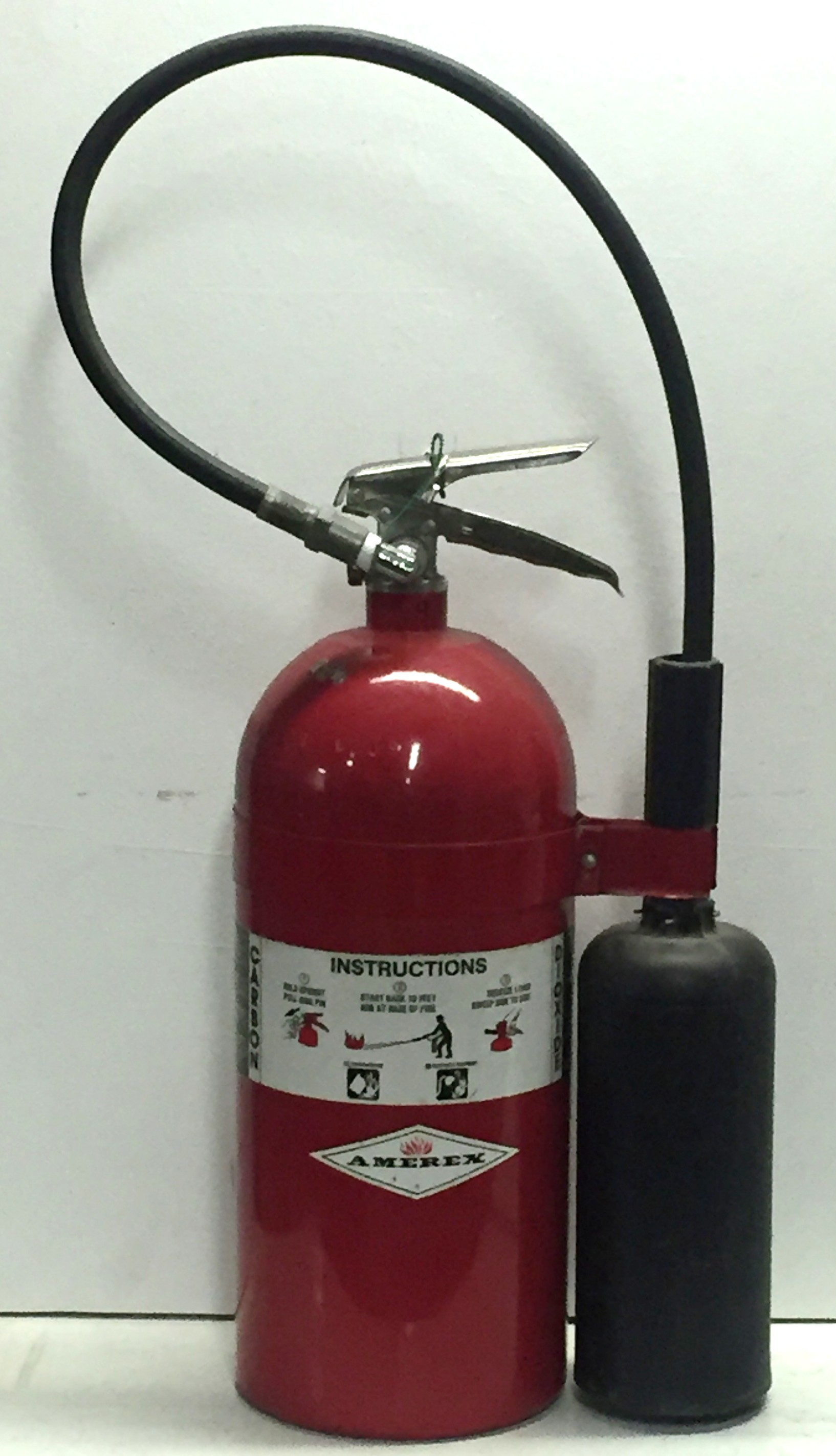 Amerex 10lb. CO2 Fire Extinguisher, Circa 1989, USA